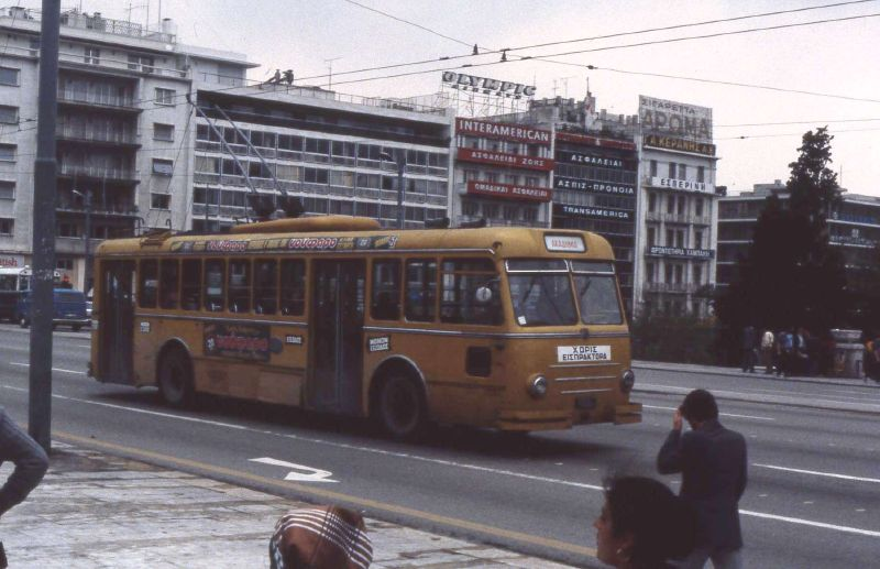 Trolleybus in Athens (1981). Produced by Lancia/Casaro/CGE 1960.